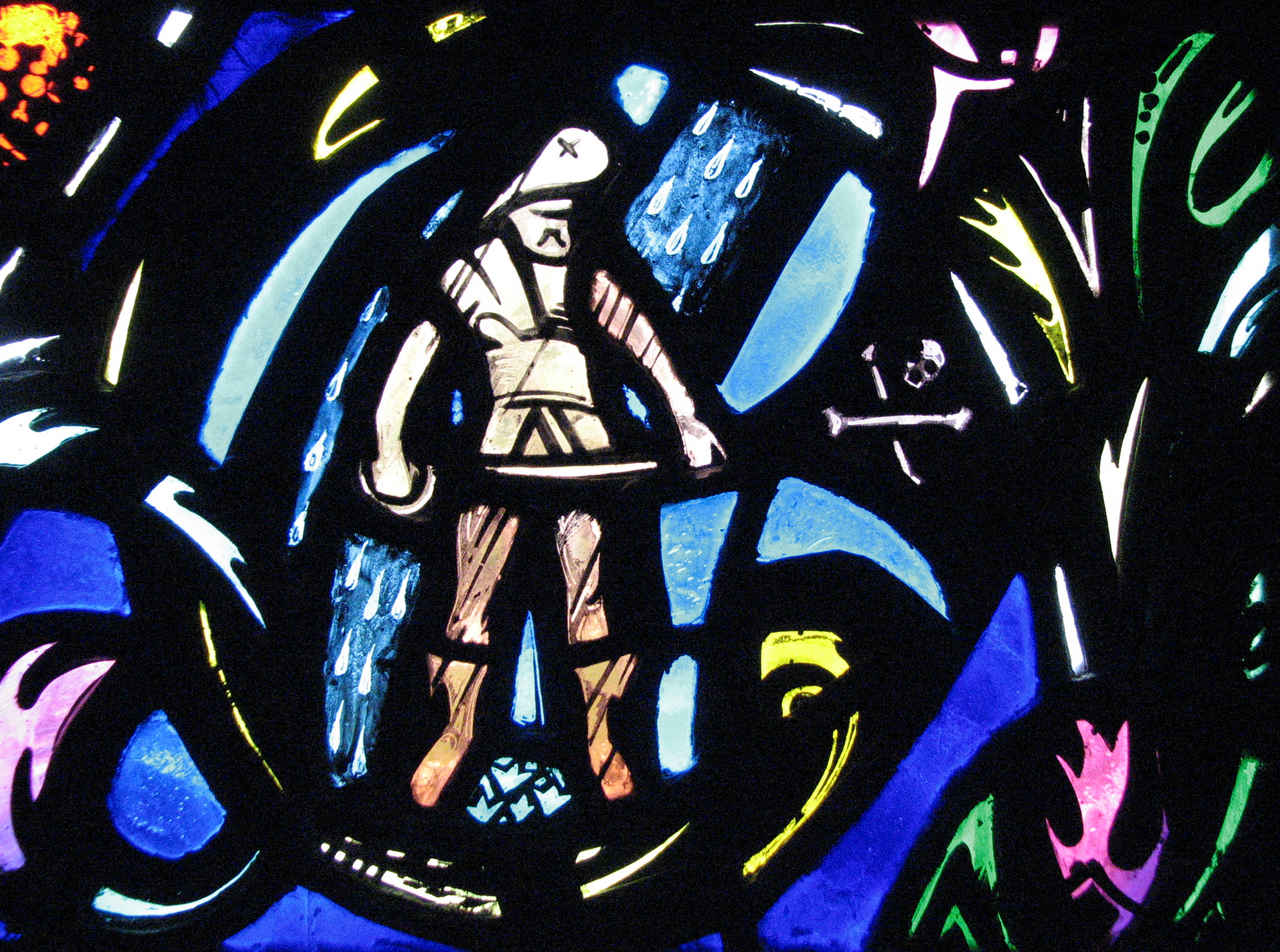 And it was good. Taken this weekend at the Heinz Chapel, where they have pirates in the stained glass, but no ketchup. Go figure.